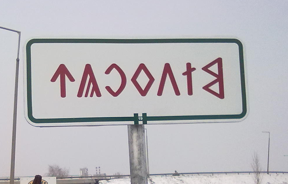 One of the eight city limit signs in Miskolc, using Hungarian rovas script